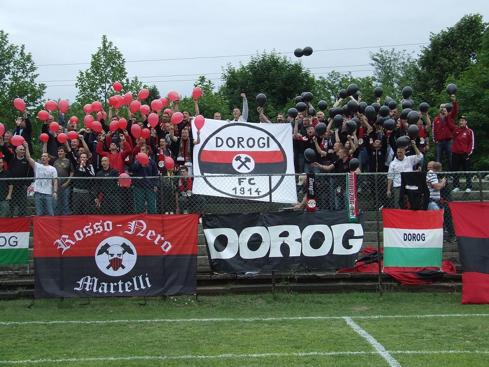 Dorog fans in Erd in 2012